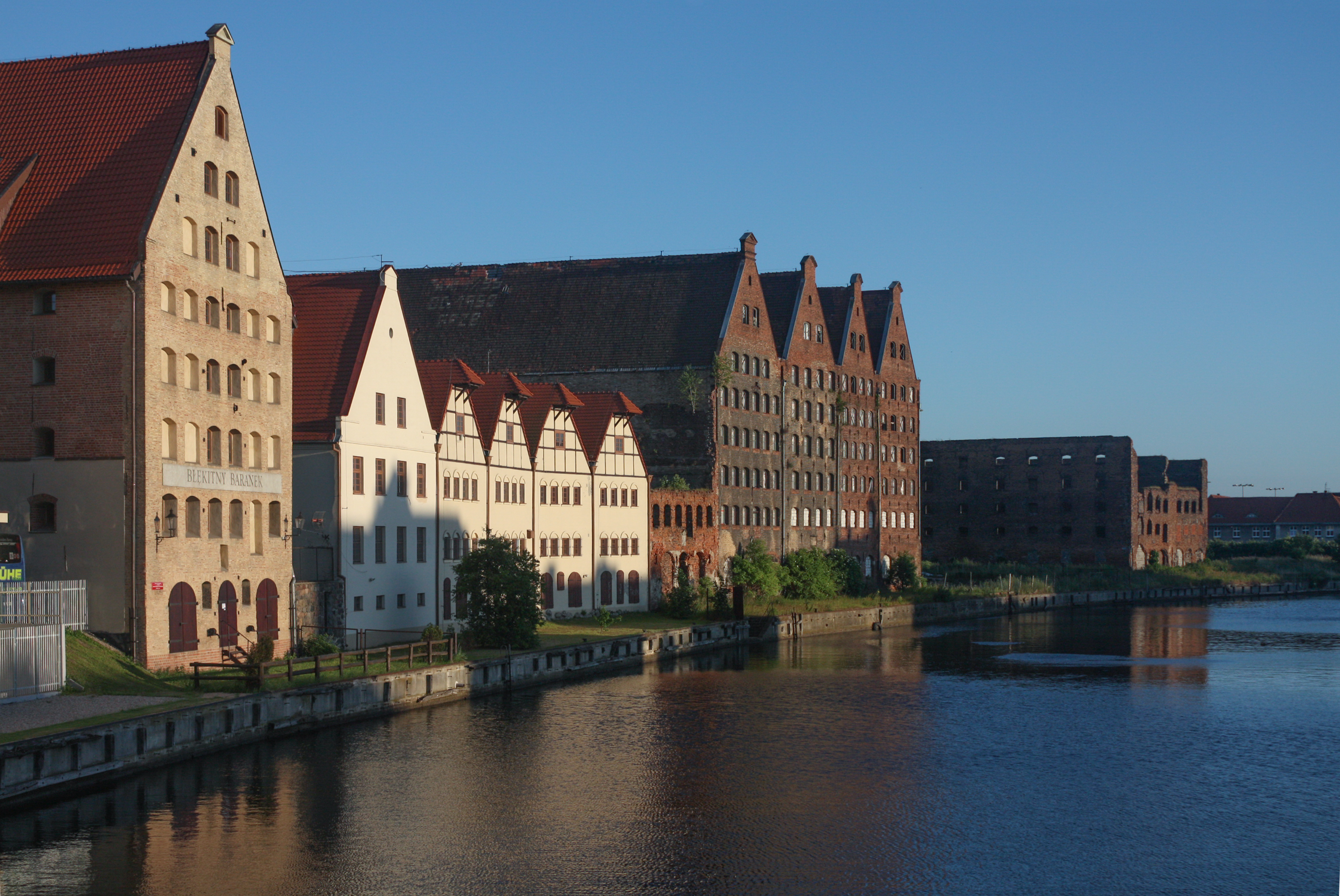 Gdańsk, Granaries Island